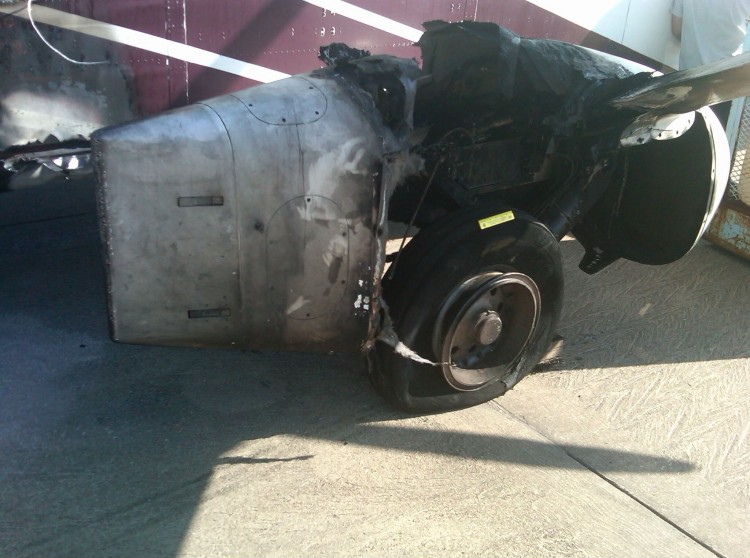 NTSB photo of a Shorts 360 landing gear fire Other information listed as public domain on Aviation Safety Network website